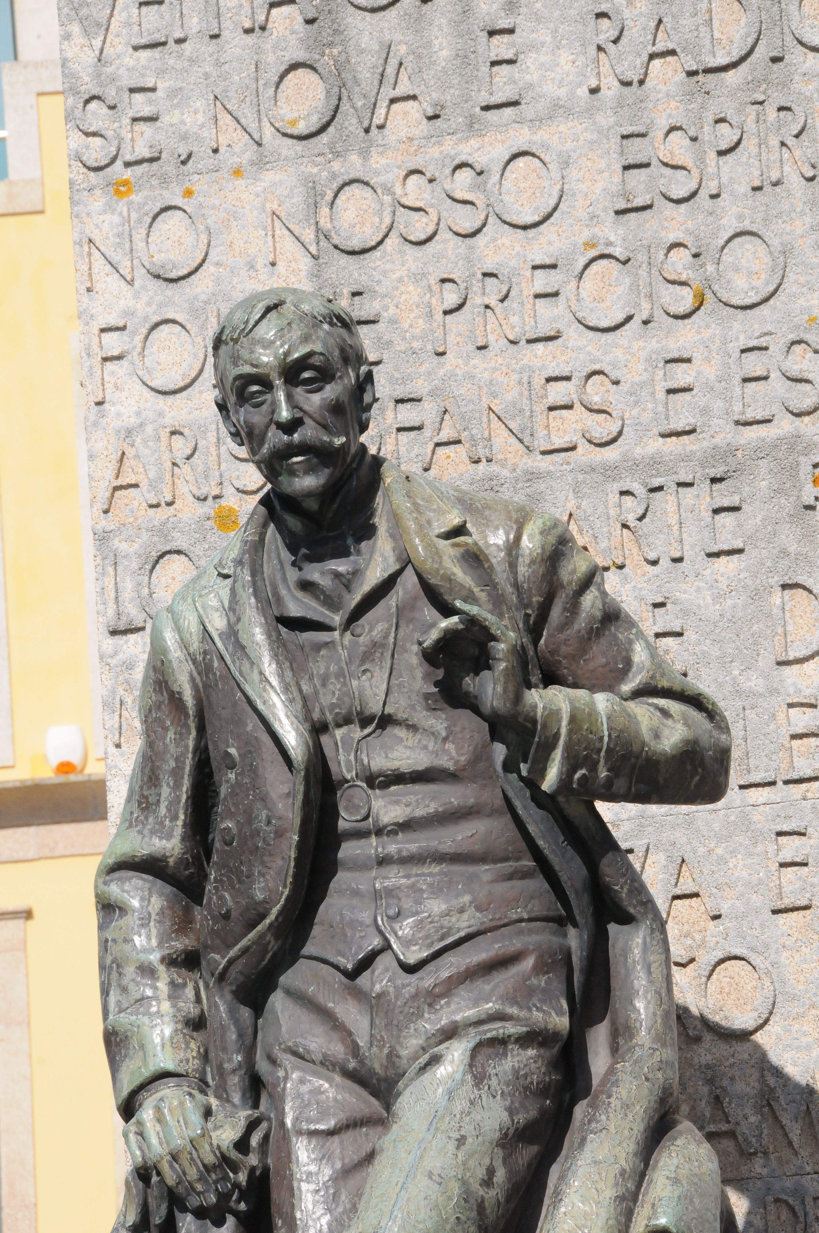 Póvoa de Varzim, Porto district, Portugal.